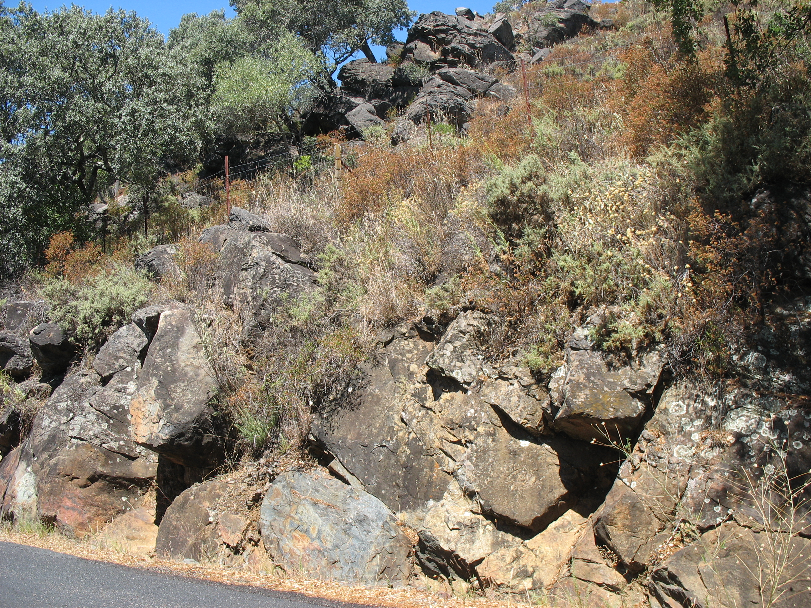 Outcrop of amphibolites, general view. Acebuches, Almonaster la Real, Huelva, Spain.